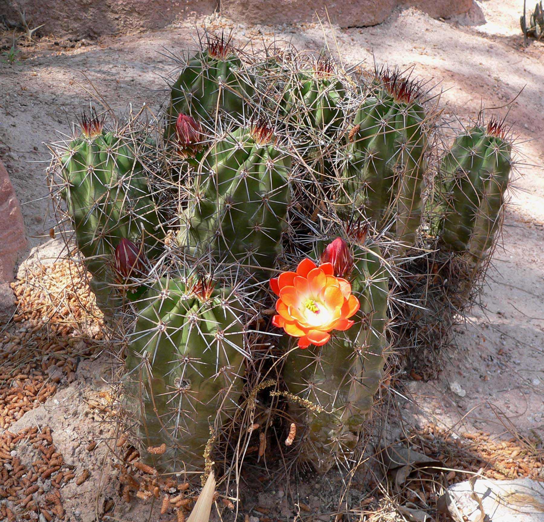 Photo of Echinocereus triglochidiatus ssp. arizonicus at the Desert Demonstration Garden in Las Vegas, Nevada